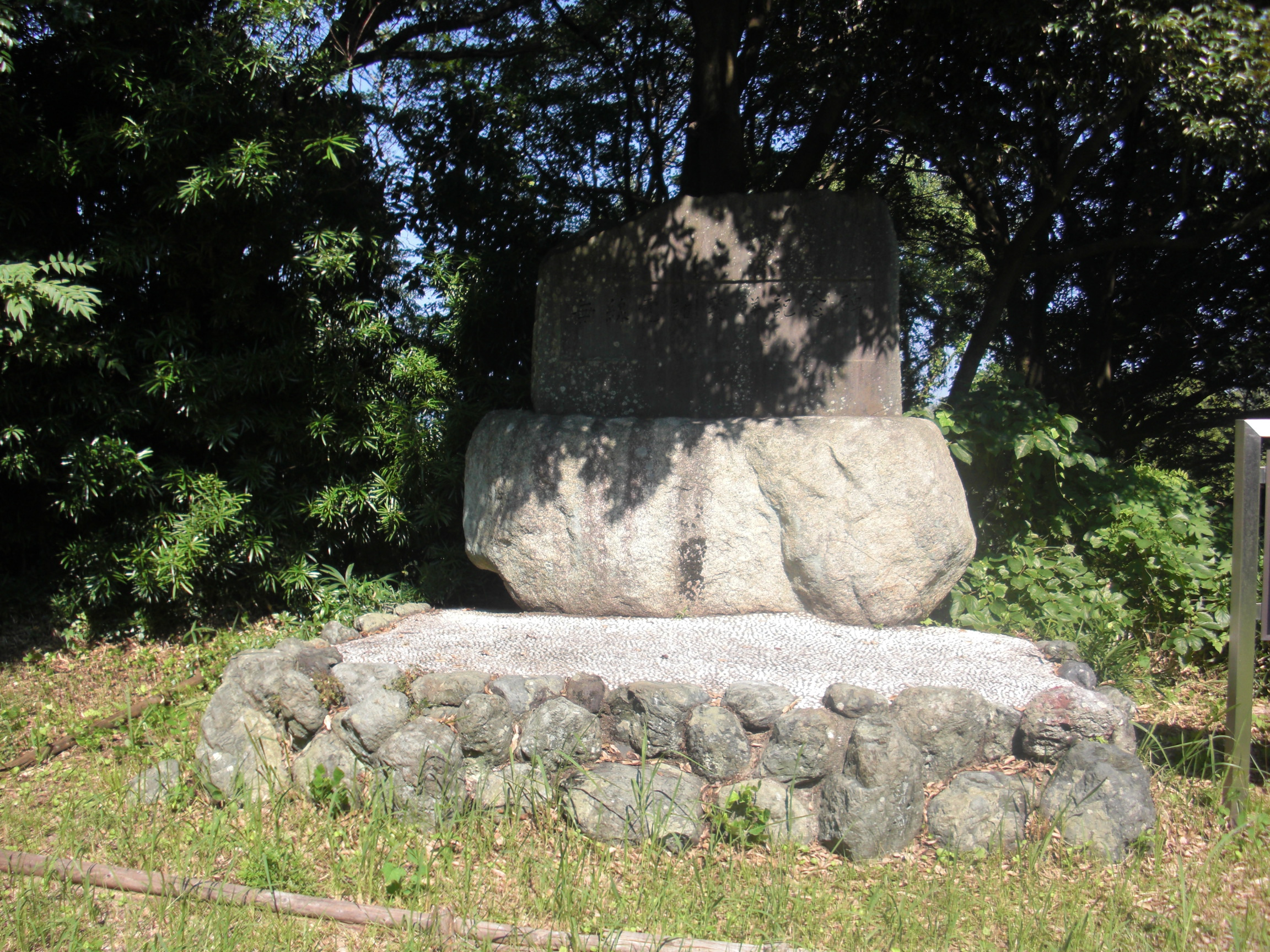 This is the memorial for Radiotelephone Cradile. This memorial is in Toba city, Mie prefecture, Japan. Radiotelephone was put to practical use for the first time in the world at Toba.